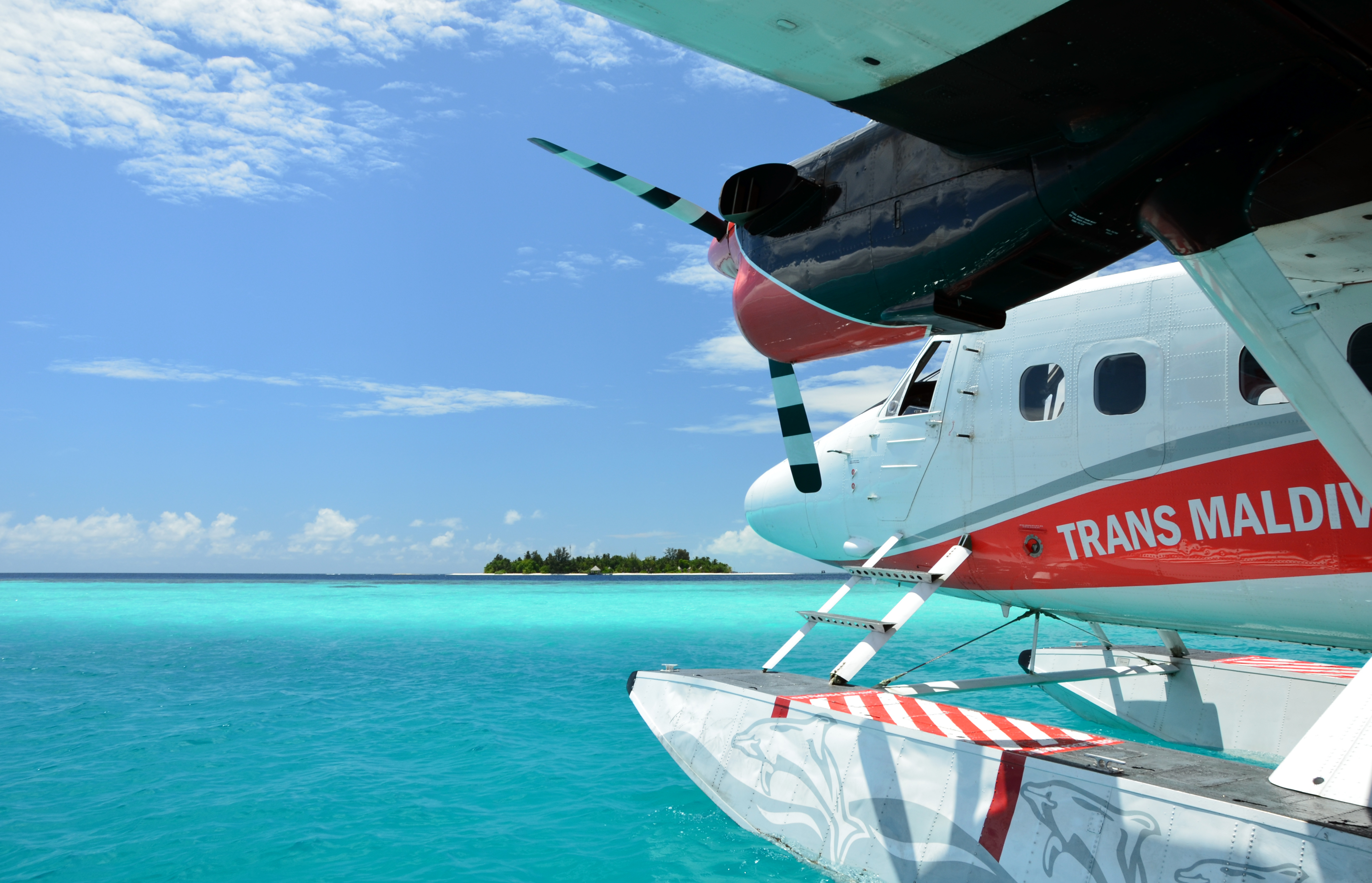 A Trans Maldivian Airways (TMA) floatplane to the north of Bathala island (Maldives).